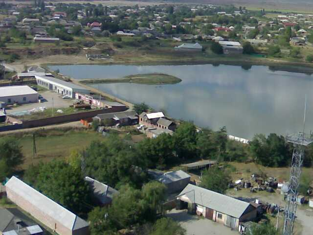 Вид на село Ачхой-Мартан